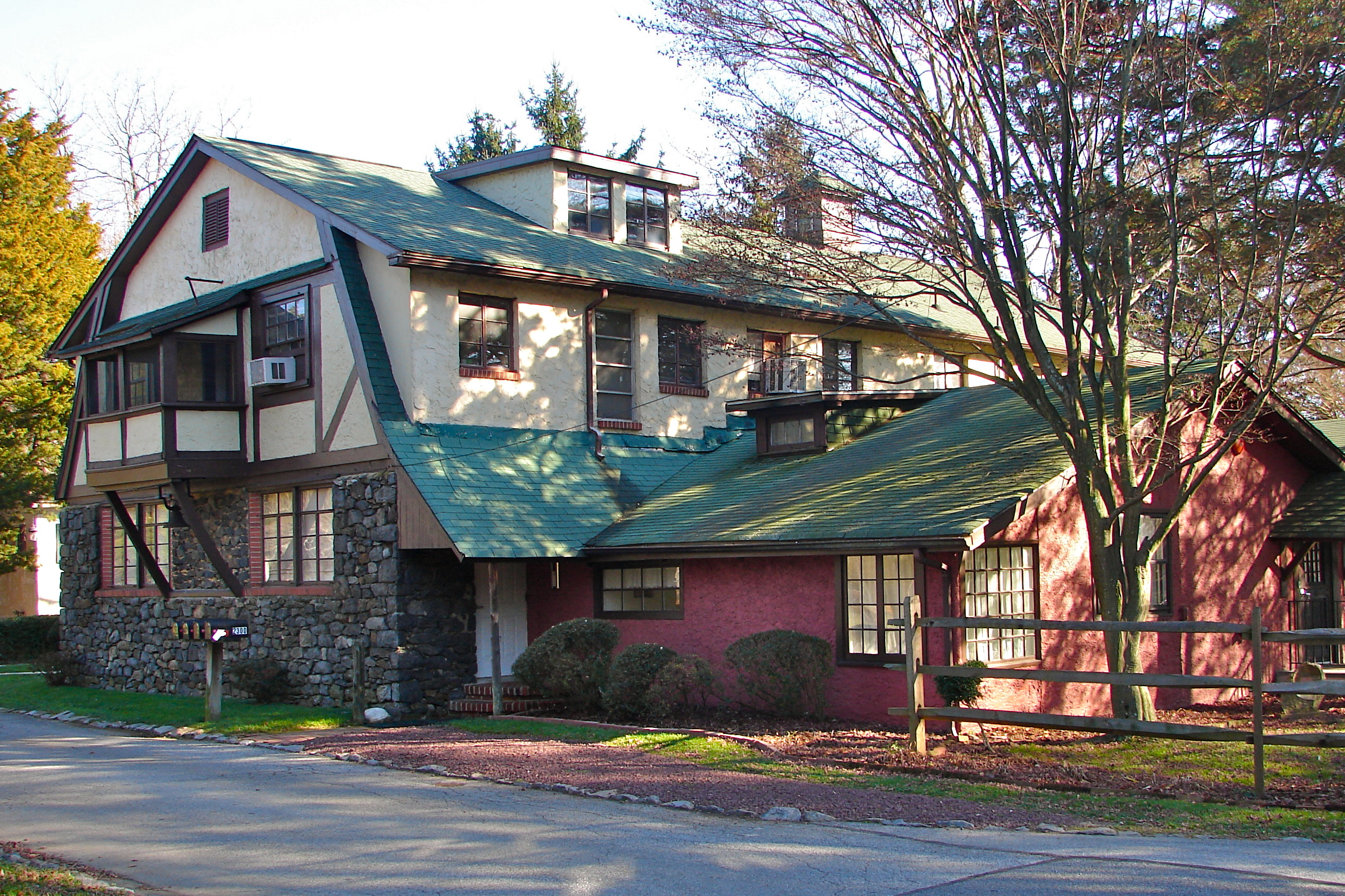 Craft Shop in Arden, Delaware part of Ardens Historic District, on the NRHP since May 30, 2003, near Orleans Rd. at Harvey Rd., Arden, Delaware. And part of Village of Arden, on the NRHP since February 6, 1973, located 6 miles north of Wilmington between Marsh Rd., Naaman's Creek, and Ardentown 39°48′40″N 75°29′14″W Arden, Delaware. (These clearly overlap). The Craft Shop was designed by Will Price in 1913 and constructed, in modified form, by 1914. It is on the SW corner of the village green.